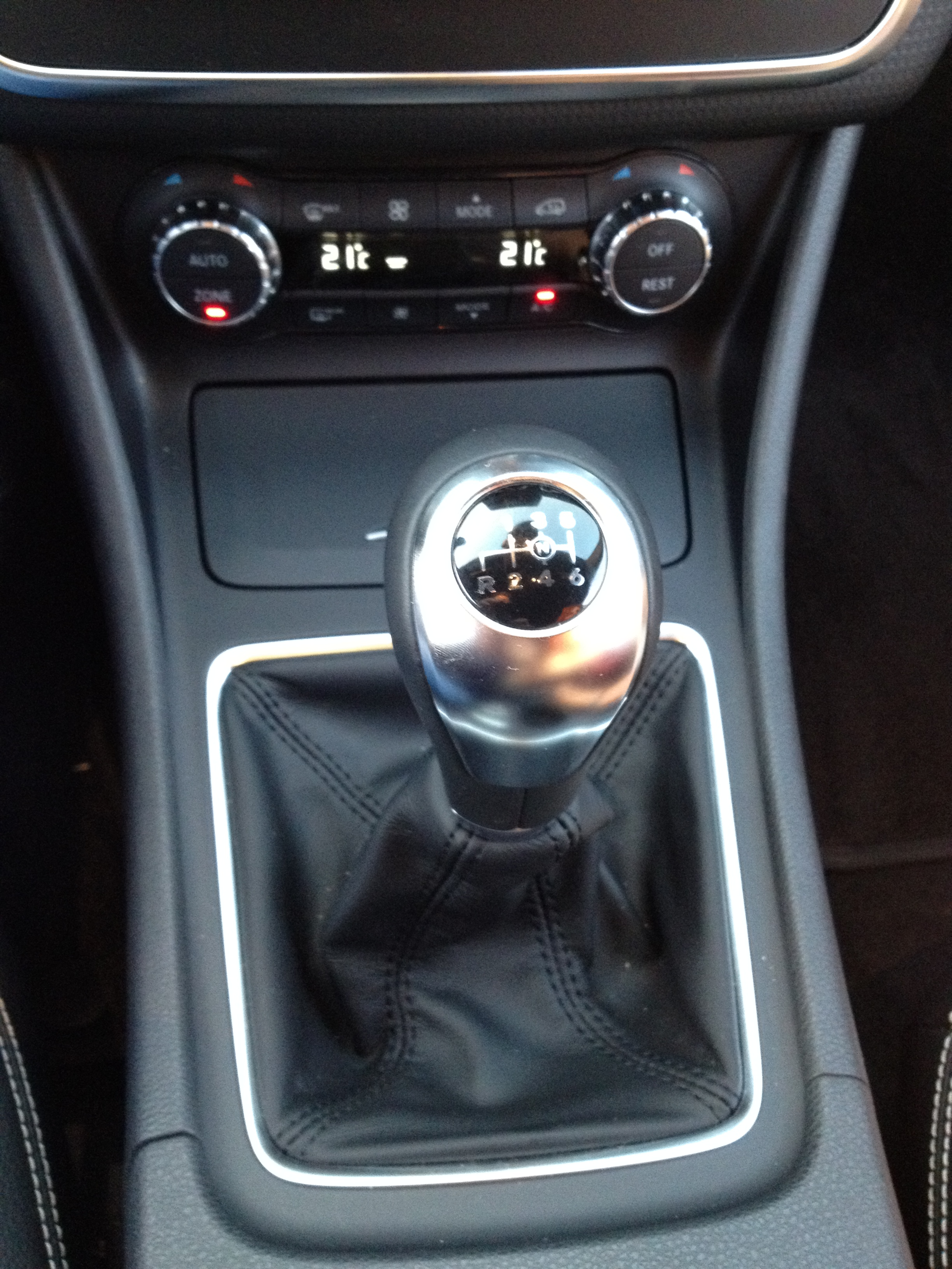 Mercedes A-Class 2012.